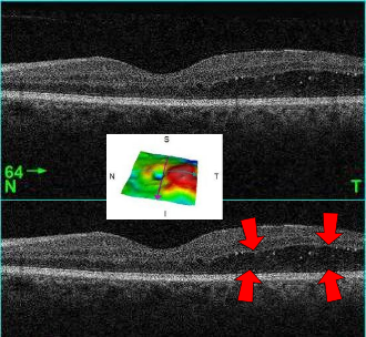 Macular edema in a man of 61 years with type 2 diabetes, OCT (edema marked with arrows), and 3D reconstruction of the retinal thickness (image center) where you can see the edema in red.